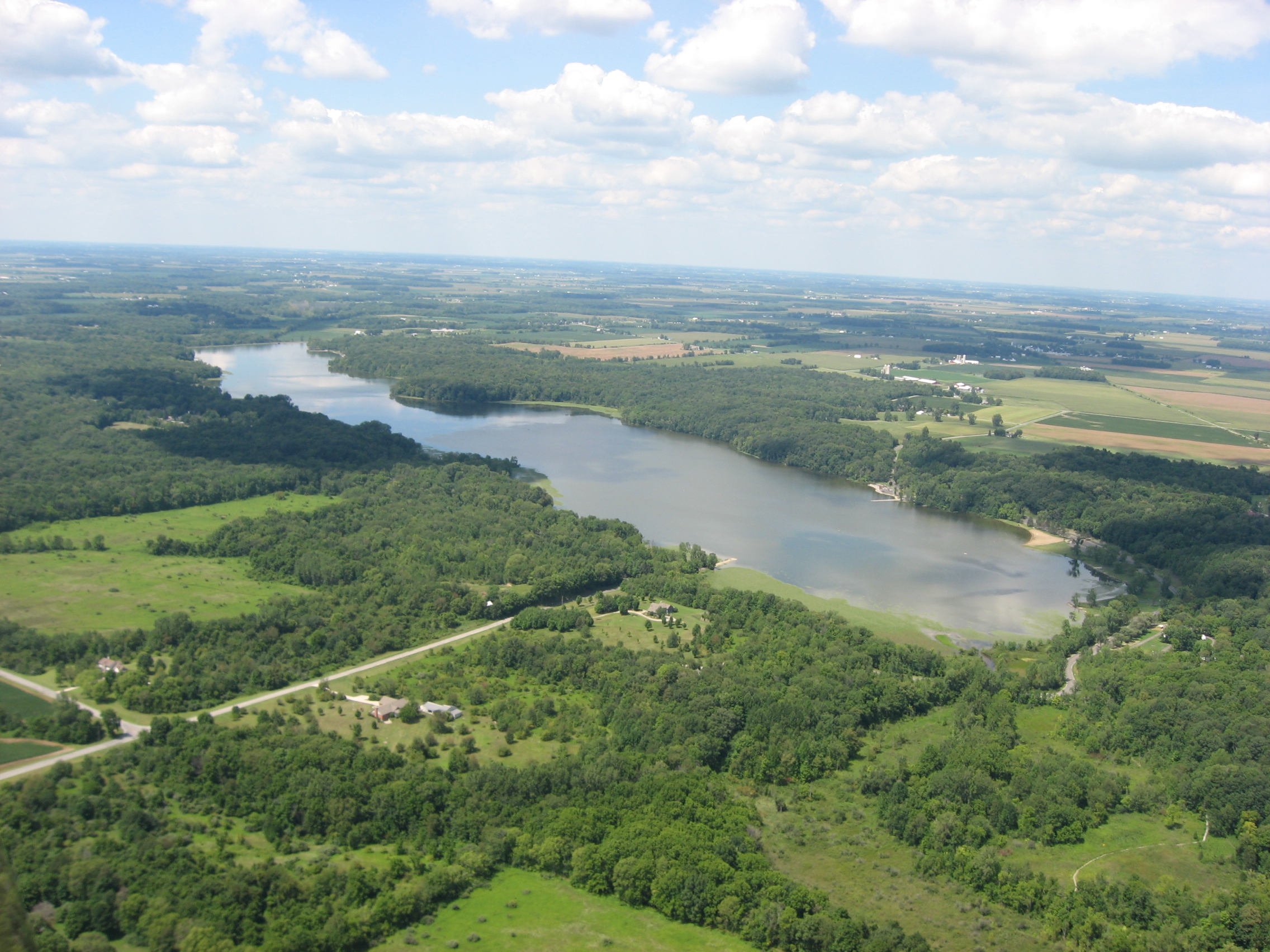 Aerial view of Kiser Lake, the central feature of Kiser Lake State Park in Johnson Township, Champaign County, Ohio, United States. Picture taken from a Diamond Eclipse light airplane at an altitude of 2,200 feet MSL and a bearing of approximately 340º.